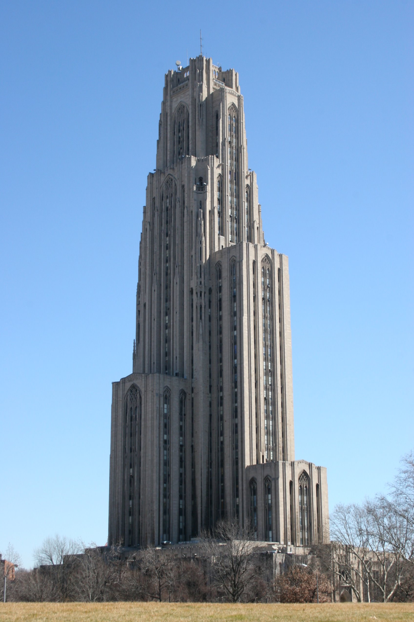 Cathedral of Learning at the University of Pittsburgh, Photo Credit